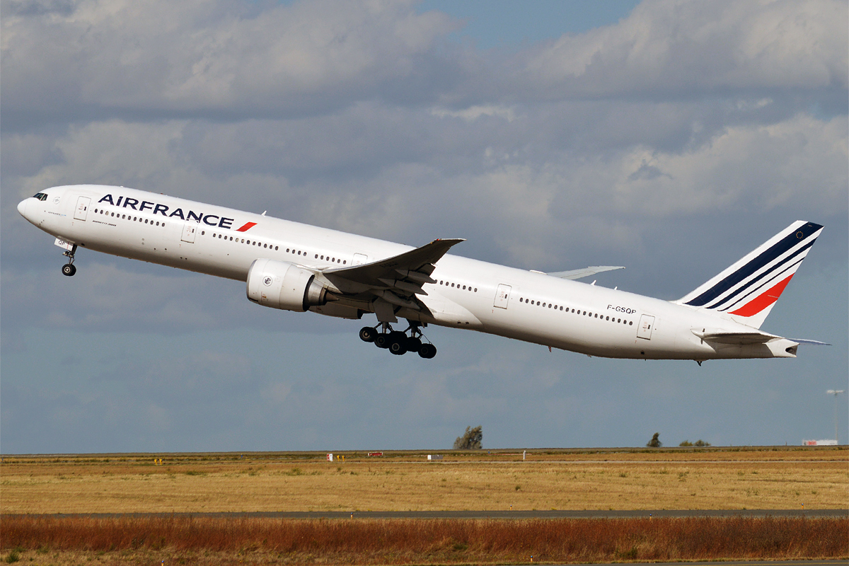 Air France, F-GSQP, Boeing 777-328 ER